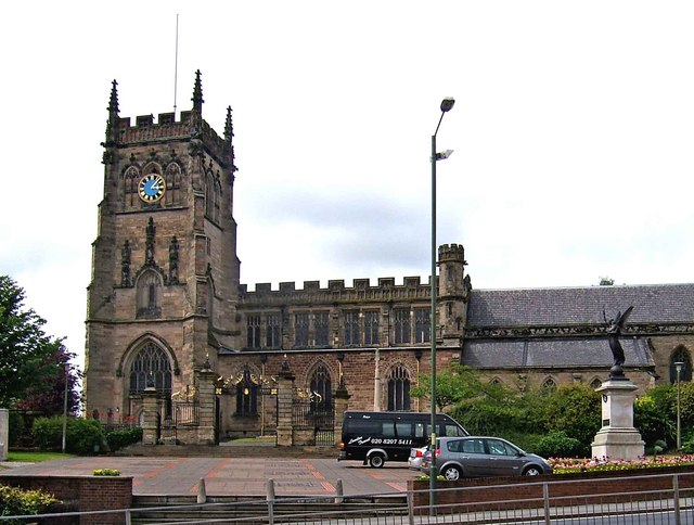 St. Mary & All Saints Parish Church The largest parish church in Worcestershire, and thought to date from the 15th/16th centuries, but much is Victorian, when the church underwent major restoration. There was an earlier church, which the current church either incorporates part of, or is on the site of. There used to be a large open space in front of the church, at the end of Church Street, but it was sacrificed to make way for the ring road, which now runs in front of the church. The statue in the church grounds, on the right, is a war memorial. 1021544